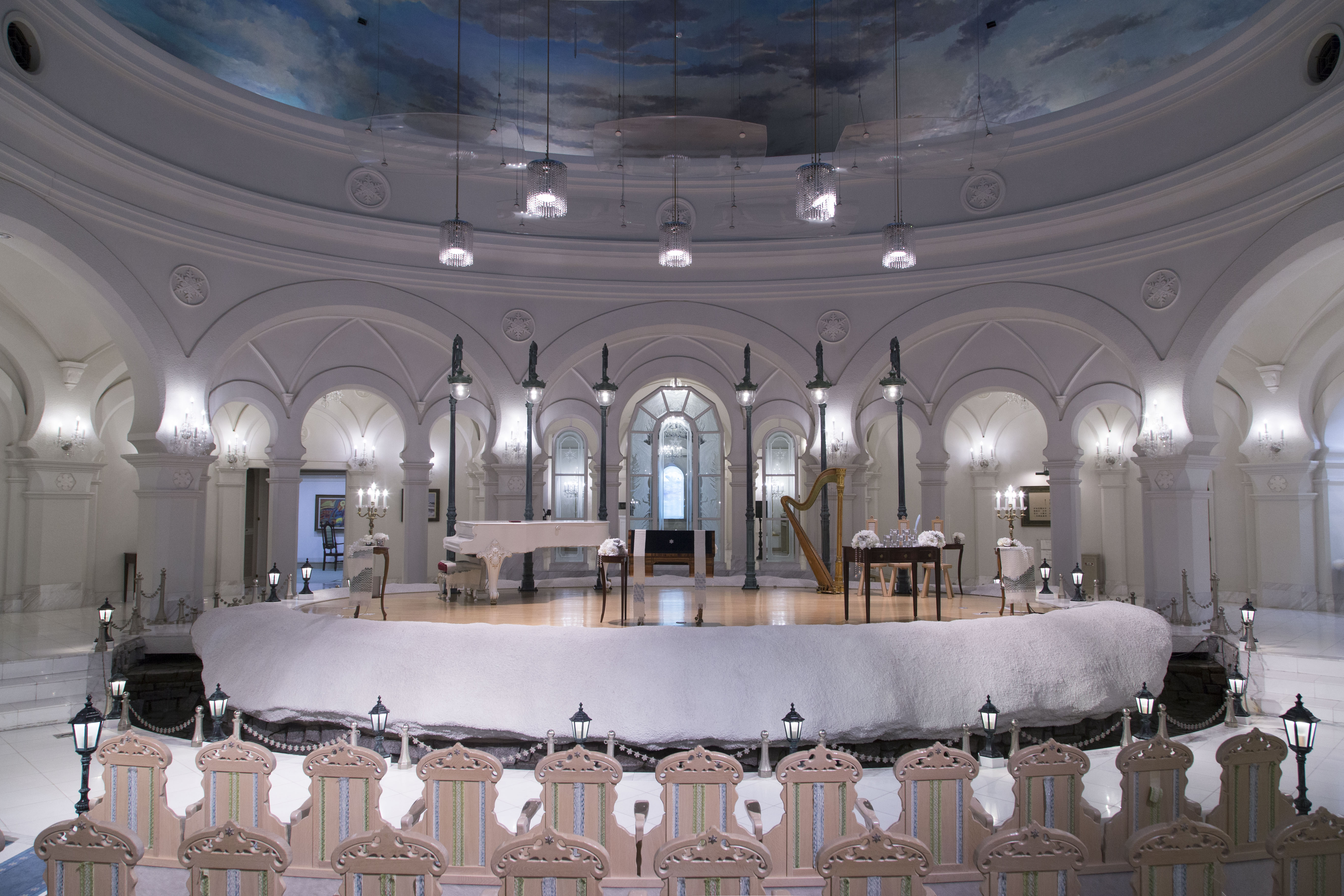 Music Hall, Snow Crystals Museum, Asahikawa, Japan